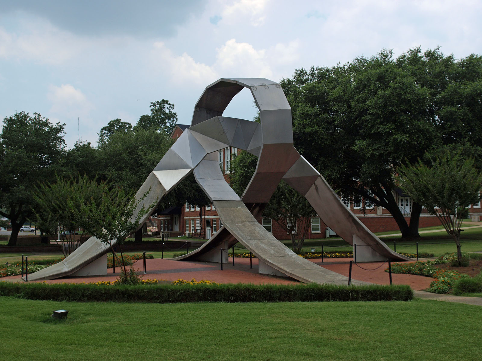 "Equinox" sculpture on the campus of Alabama State University in Montgomery, Alabama